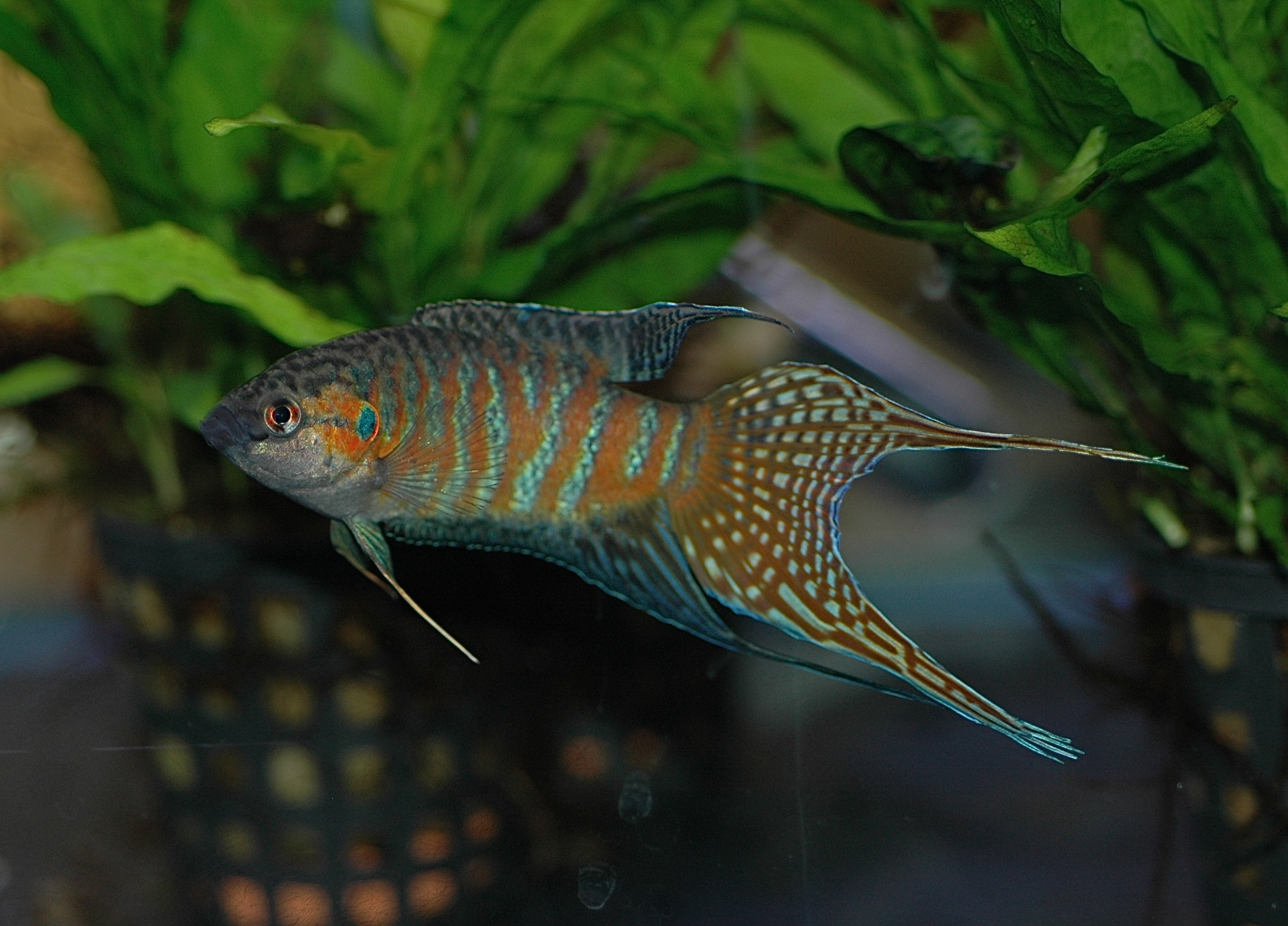 Paradise fish Macropodus opercularis, male, in an aquarium.